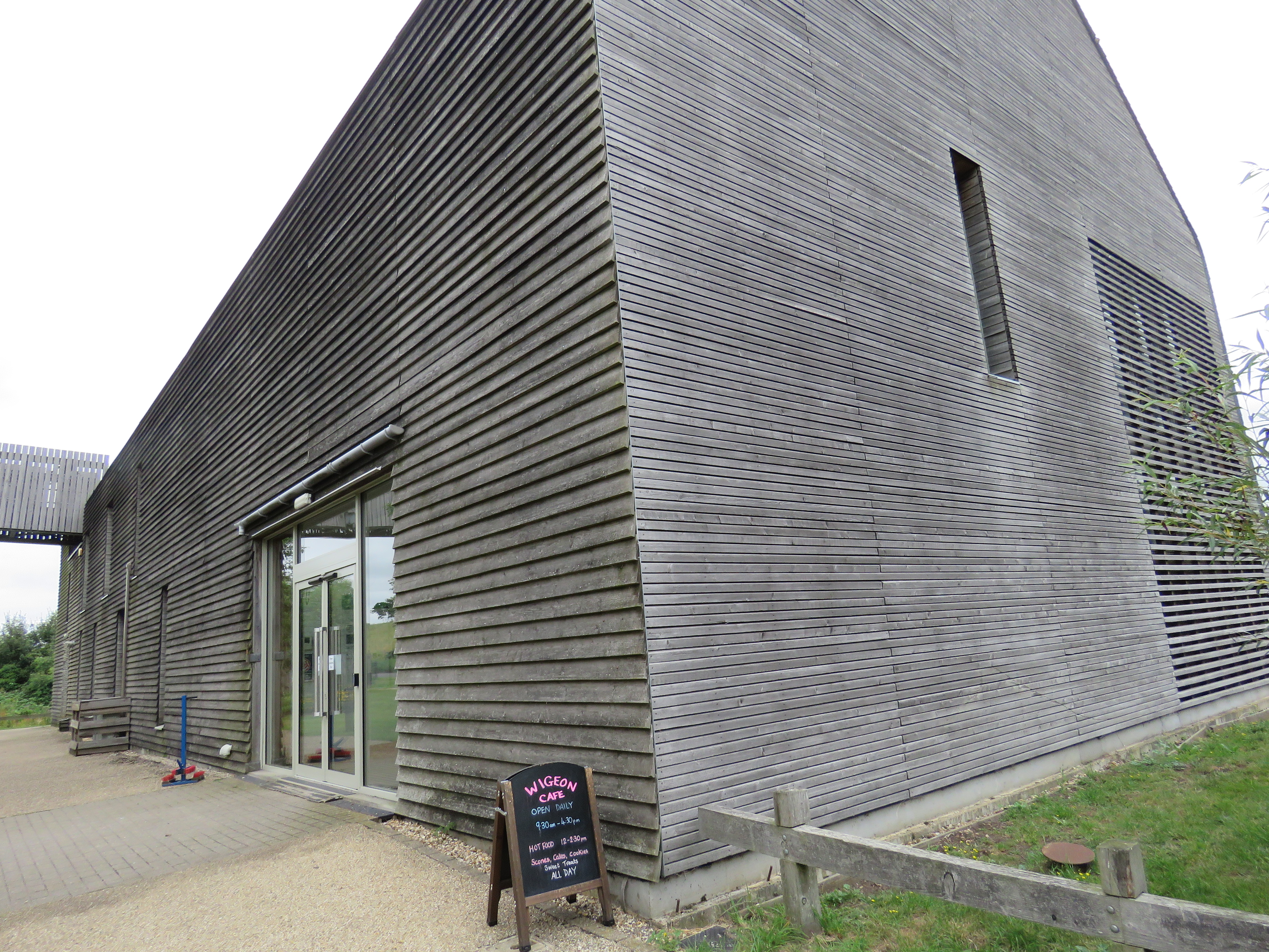 Entrance building, WWT reserve Welney, Cambridgeshire